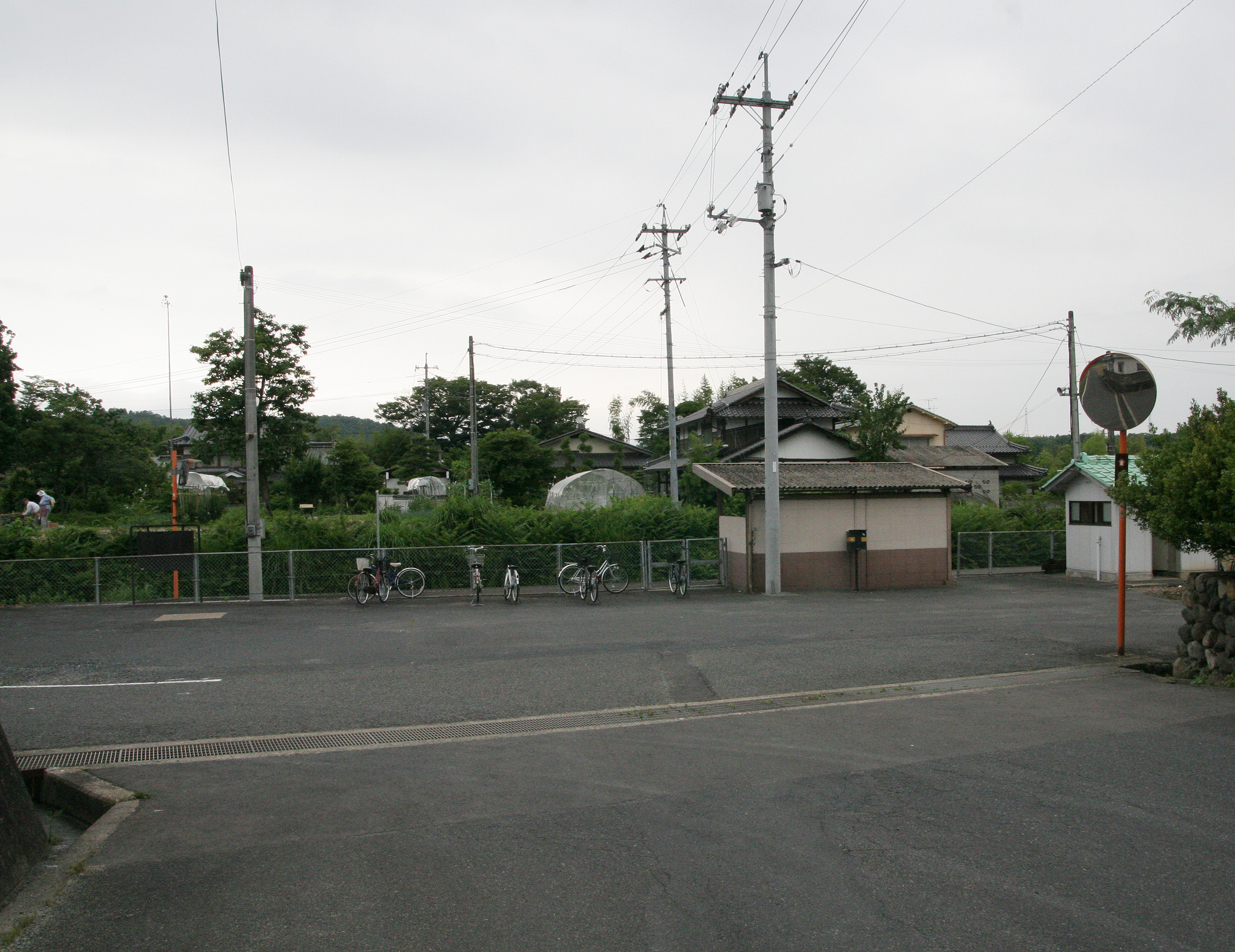 West Japan Railway Company Kishin Line mimasaka osaki sta